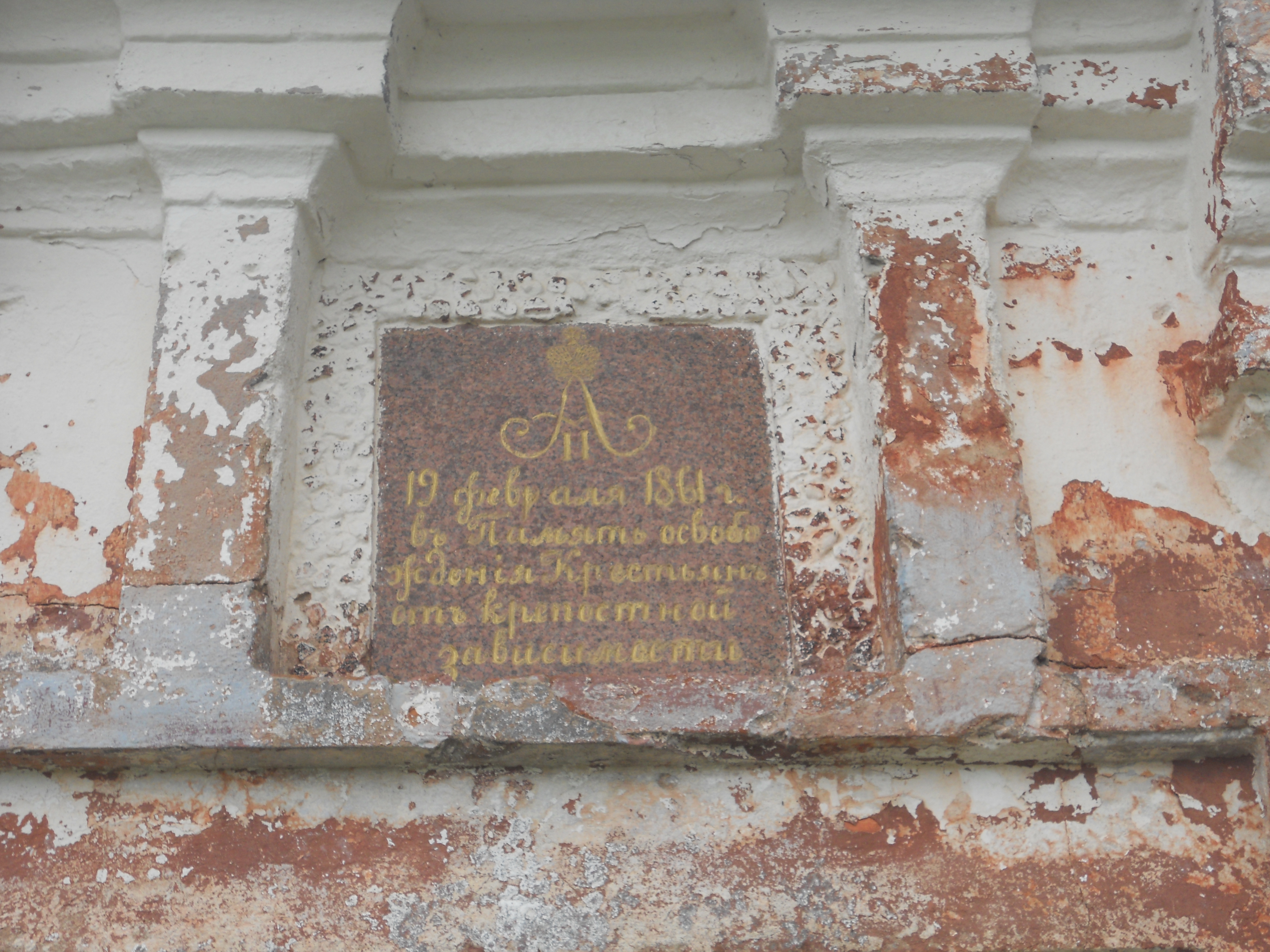 Memorial stone at the Memorial chapel in Tsimkovichi